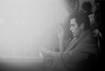 Hunt Sales, backstage after the show, Magic Mountain 1981. Hunt Sales and The Big Nine.